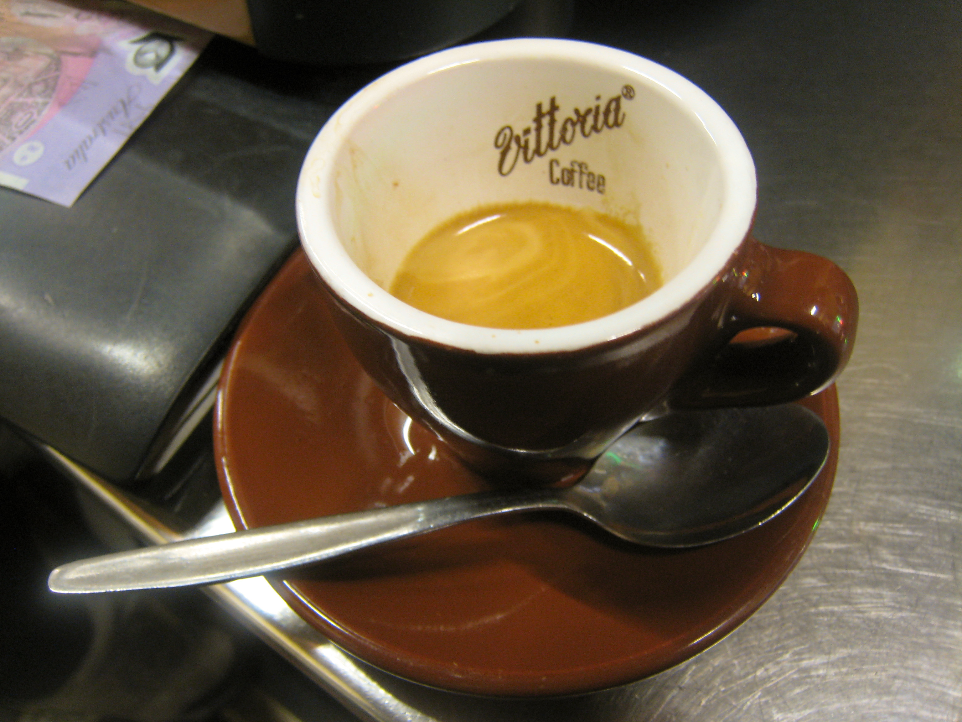 Cup of ristretto